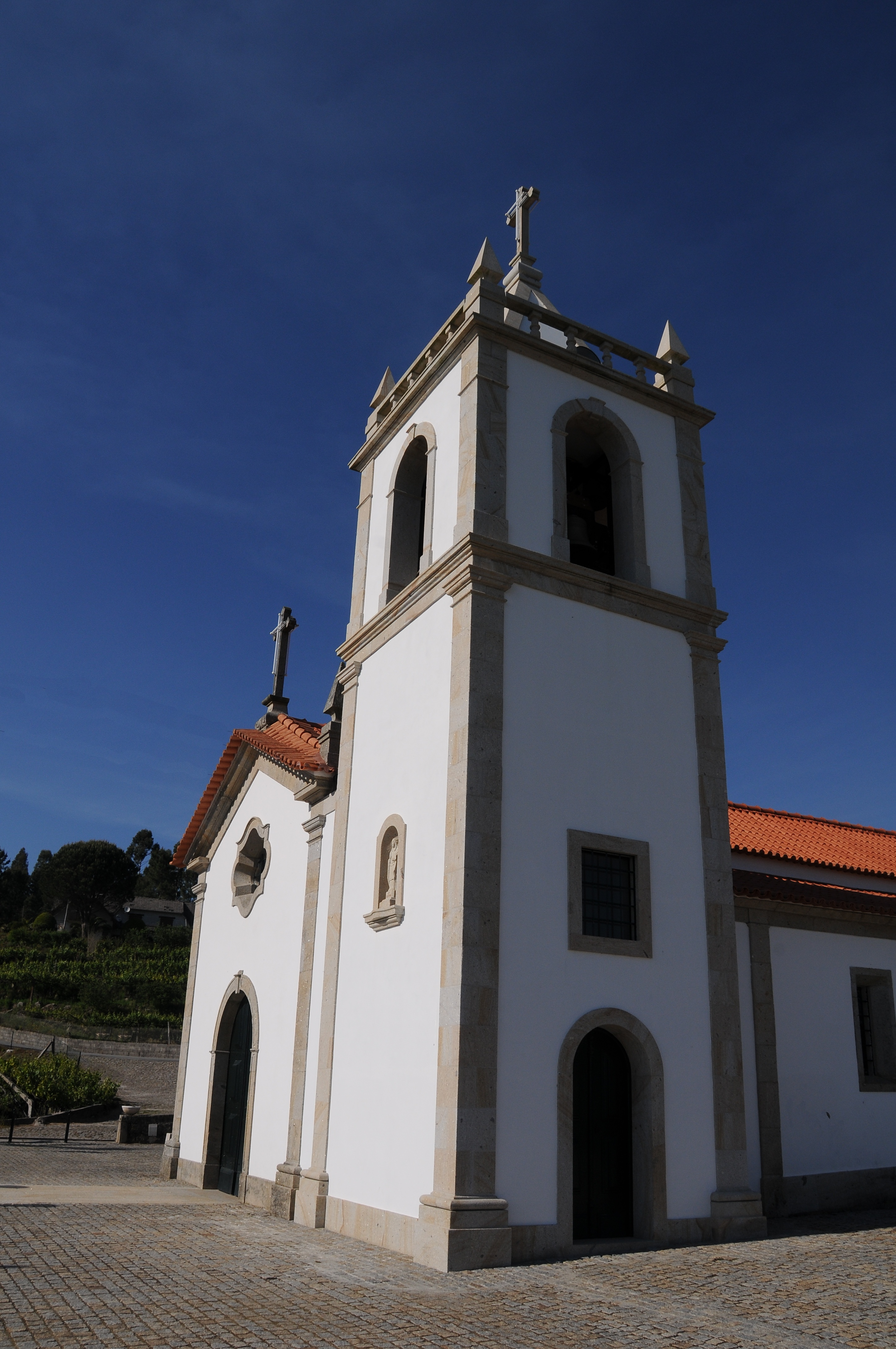 Church of Calheiros, in Ponte de Lima, Portugal